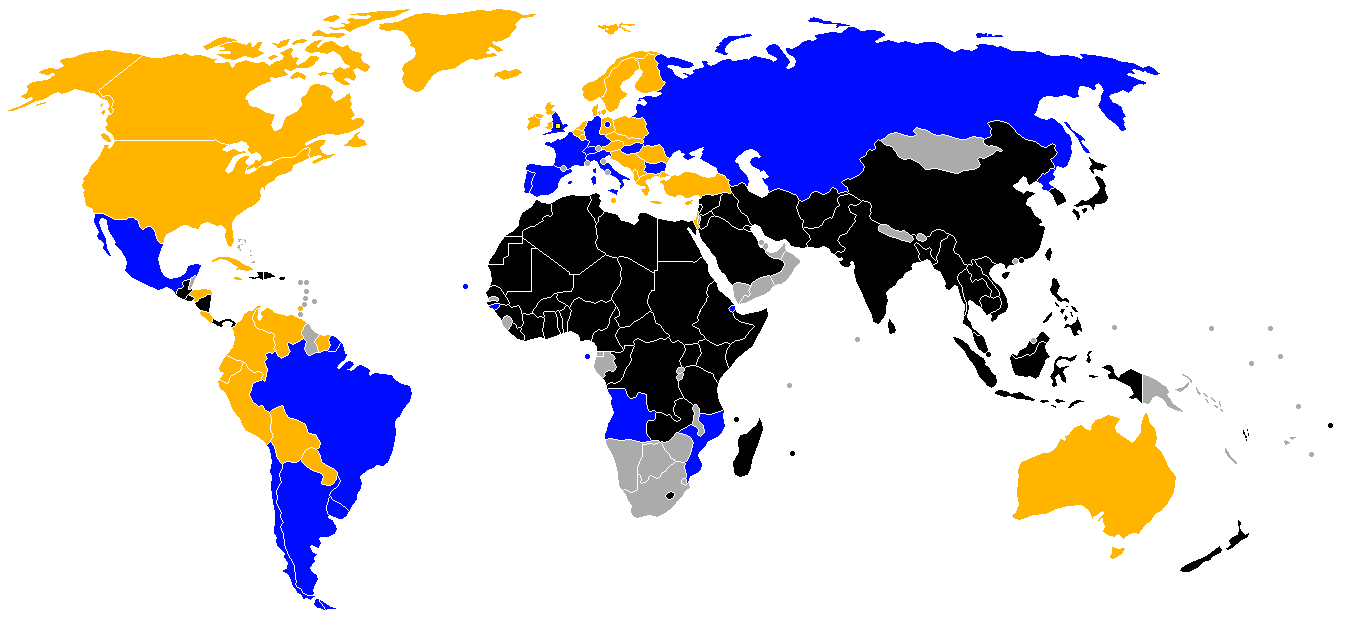 Status of countries with respect to 1966 FIFA World Cup: Qualified for World Cup finals Failed to qualify for World Cup finals Did not enter World Cup Not an associate member of FIFA